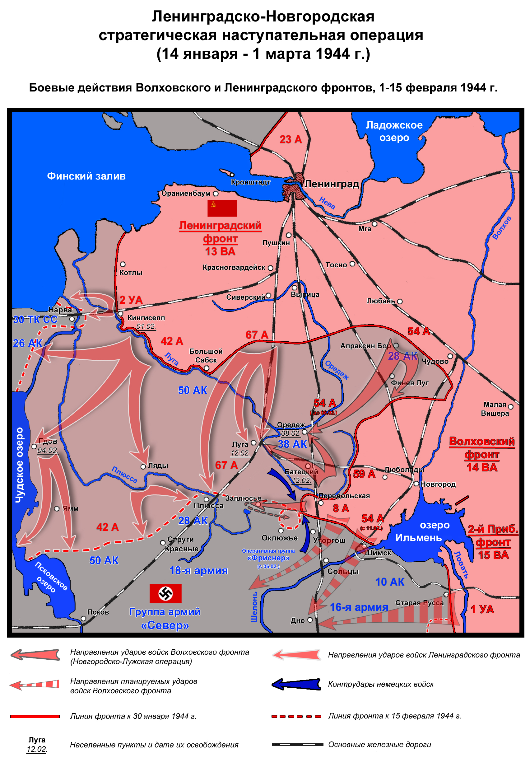 Leningrad–Novgorod Offensive (1944). The Offensive of the Leningrad and Volkhov fronts, 1-15 February 1944.